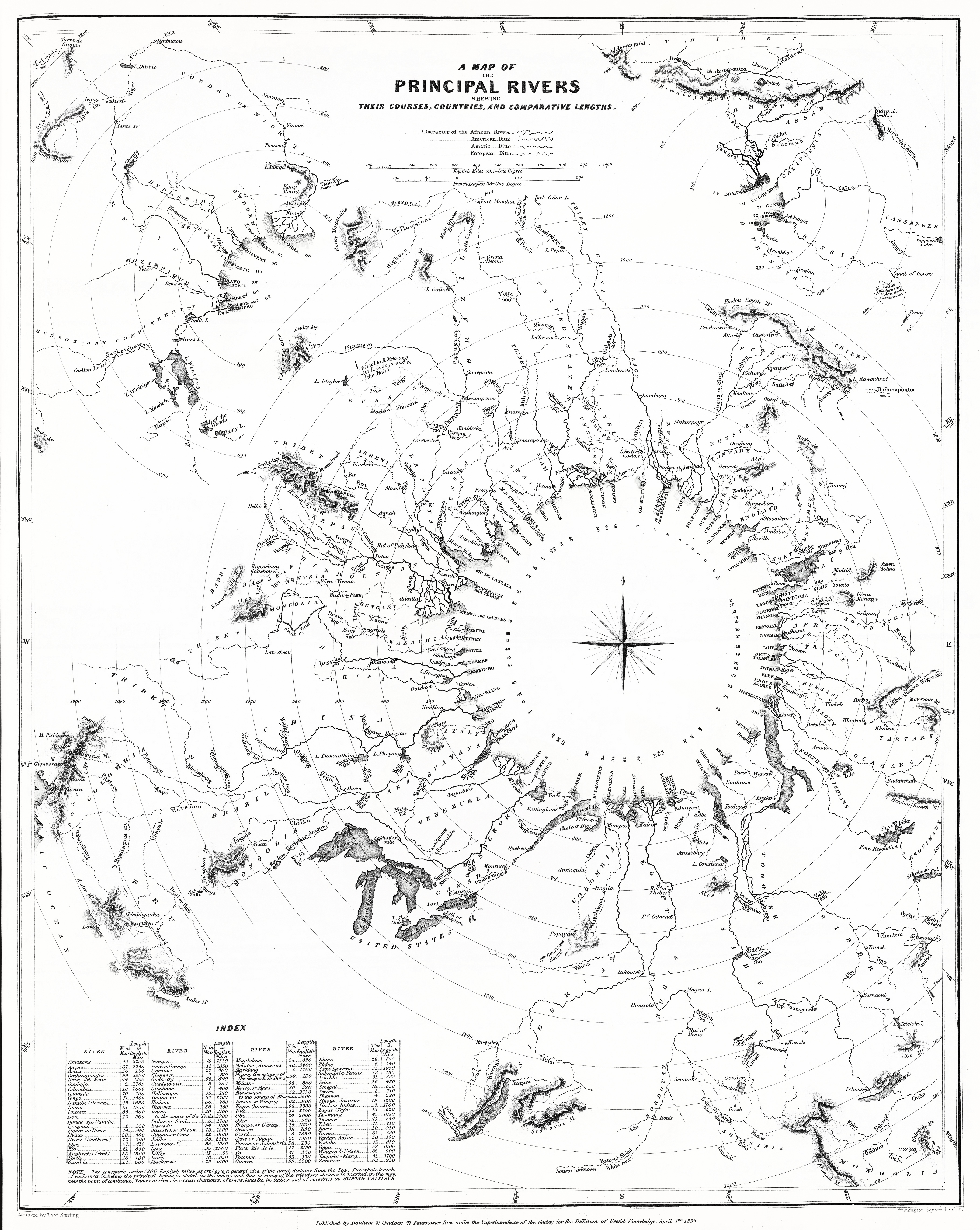 This curious comparative rivers chart published in 1834 by the Society for the Diffusion of Useful Knowledge is somewhat unique in that it imagines all of the great rivers of the world letting out into a circular inland sea. Concentric circles show the general lengths of the rivers as the bird files, but cannot take into account the twists and turns of the rivers themselves. What this chart does show is, to a degree, the direction and course of the rivers' flow. Direction, which in other comparative rivers charts is indicated textually, here is illustrated visually. Nevertheless, though innovative and physically attractive, this S.D.U.K. comparative rivers chart never caught on beyond its initial publication. Drawn by Baldwin and Craddock of 47 Paternoster Row, London, for the Society for the Diffusion of Useful Knowledge Atlas , volume 1. Dated and copyrighted April 1, 1834.